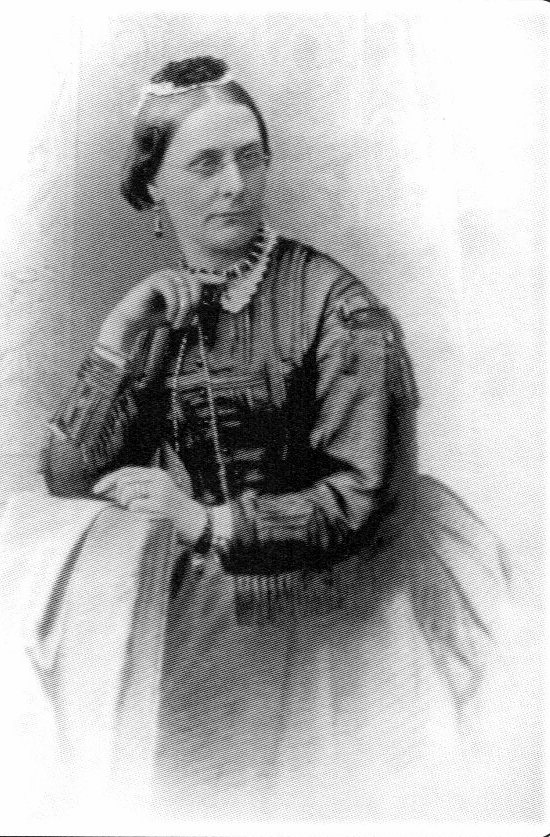 Miss F M Hext 1819-1896